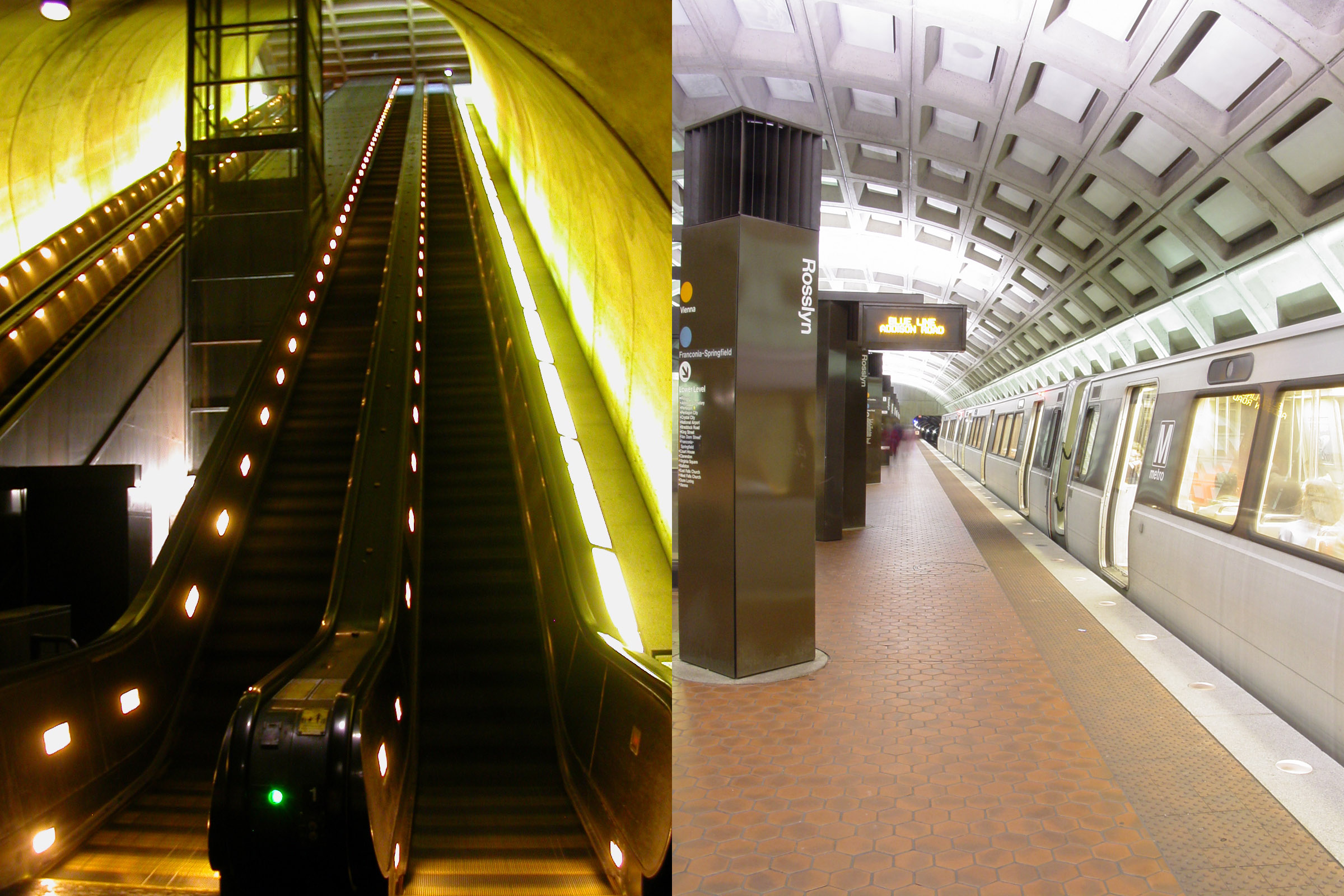 Escalator and upper level of Rosslyn Metro station, in Arlington, Virginia.